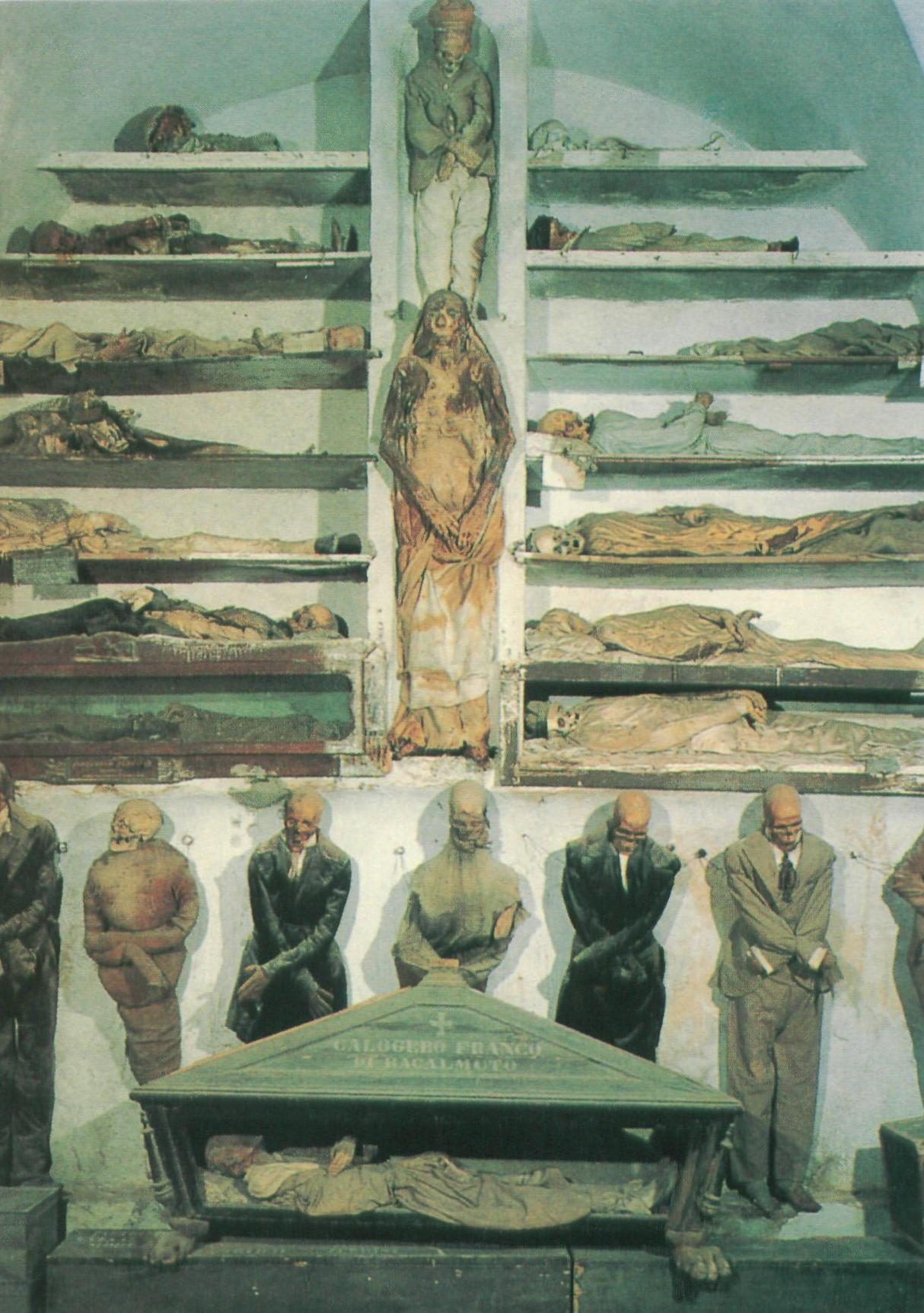 Men' Corridor in Capuchins' Catacombs